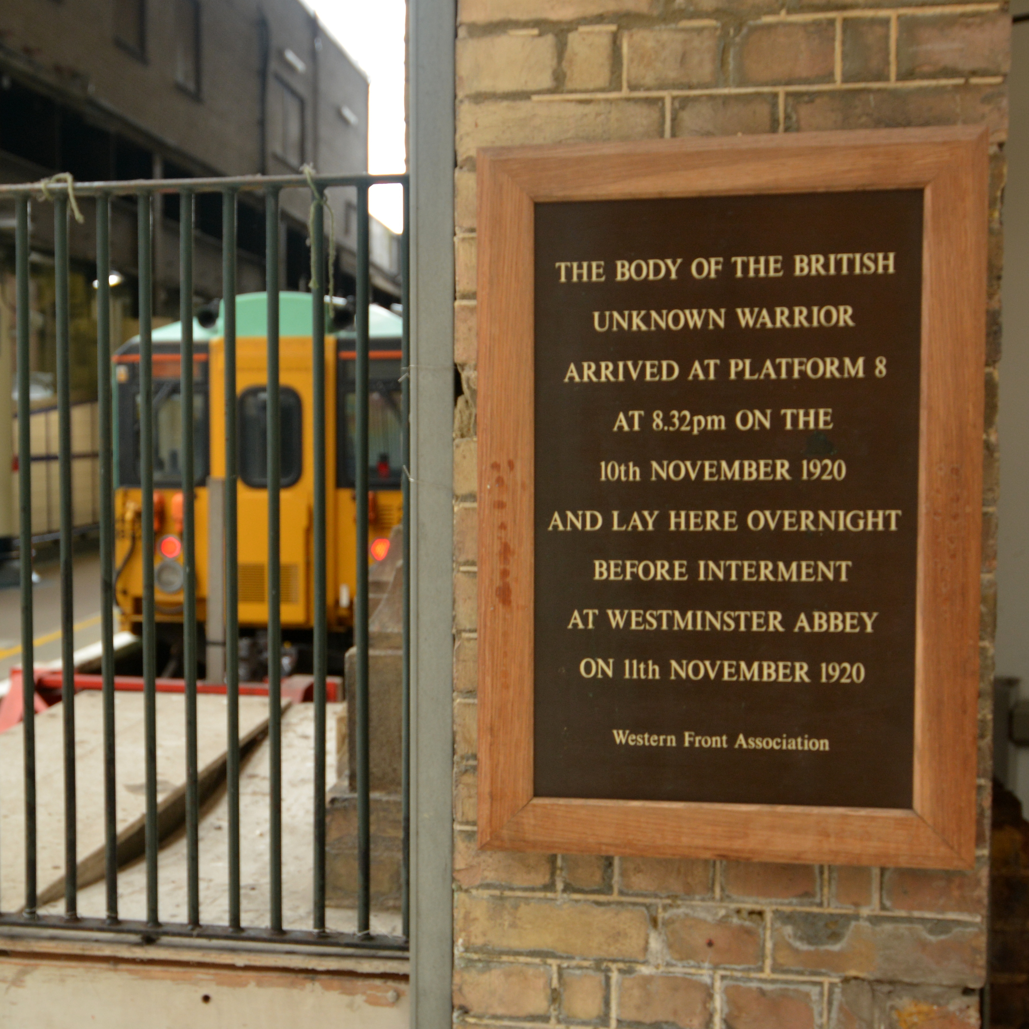 The plaque at Platform 8 on Victoria Railway Station, London, marking the location where the British Unknown Warrior lay overnight before interment at Westminster Abbey.